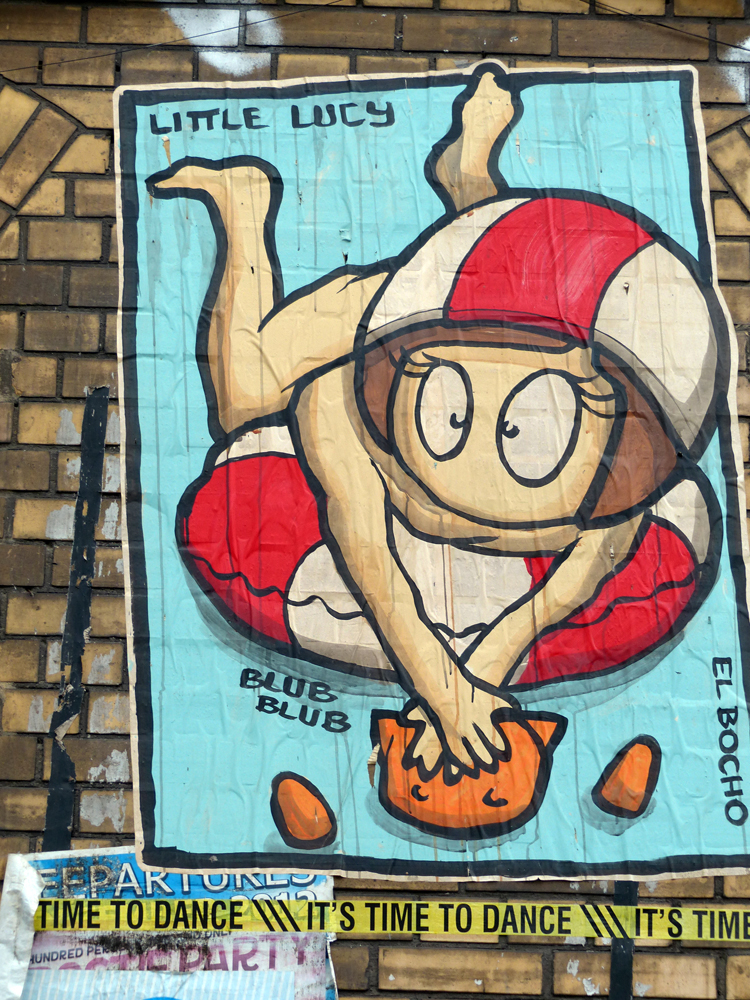 Paste-Up